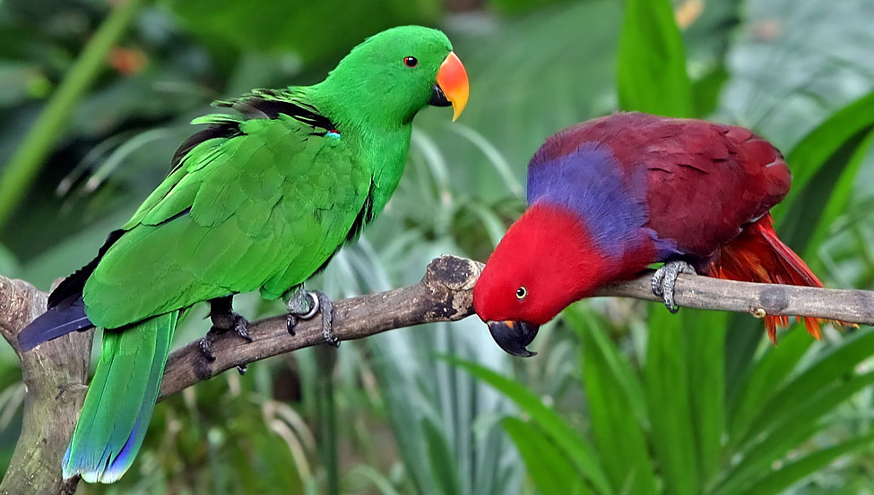 Eclectus Parrot - Male (left) and Female, Singapore Zoo